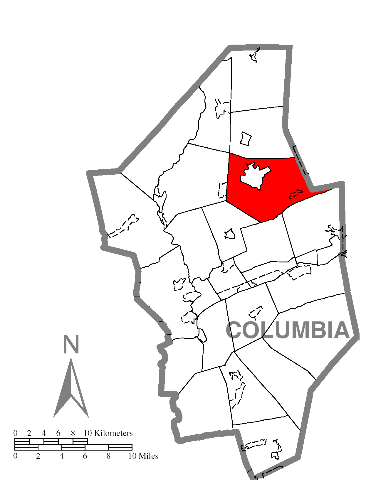 A map of Columbia County showing Fishing Creek Township, Pennsylvania (alternate) highlighted on the map.